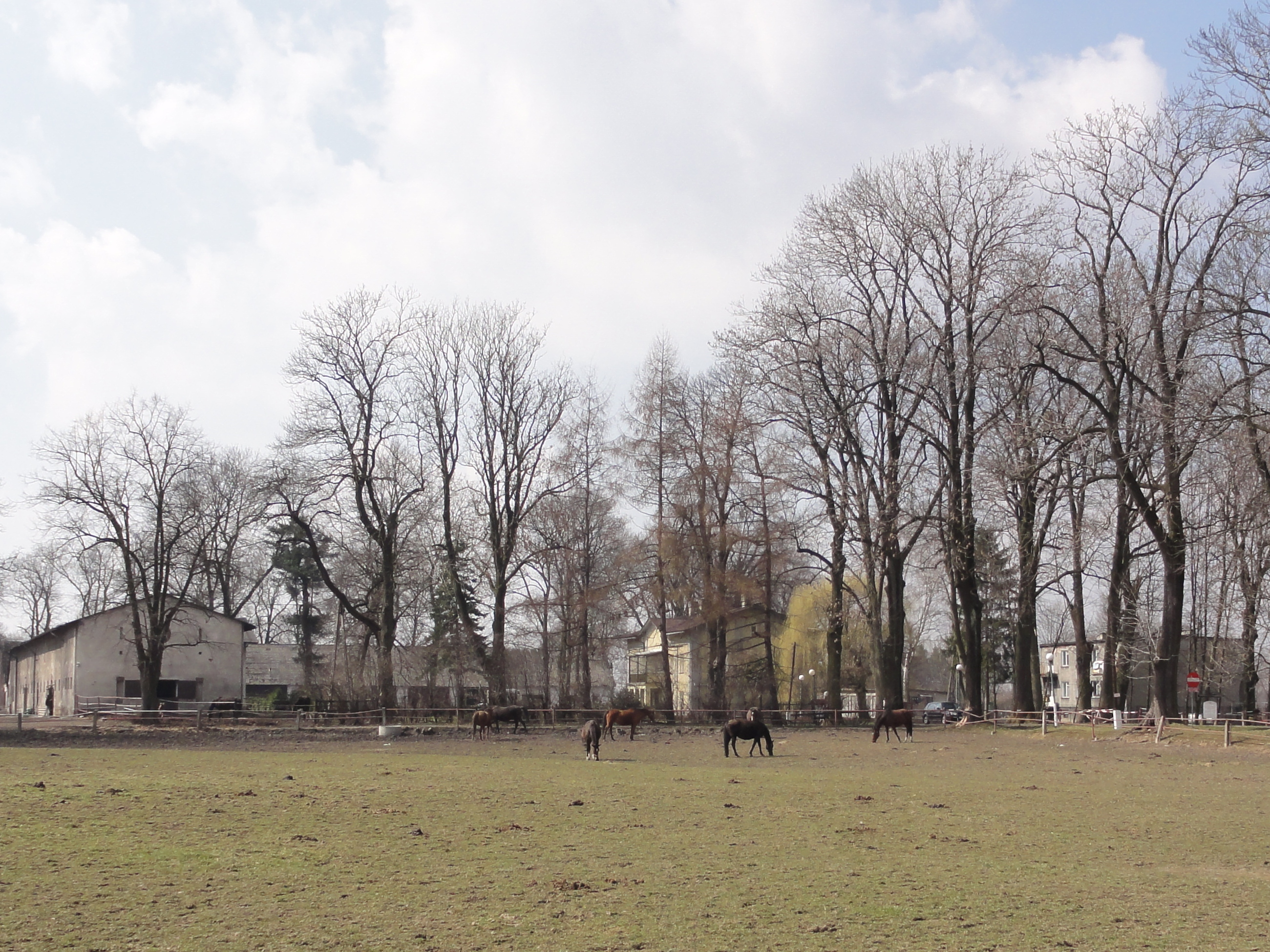 Stud farm in Ochaby